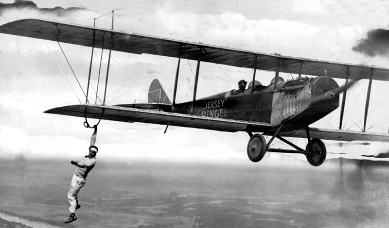 Aerial Aerobics being performed by one Jersey Ringel.